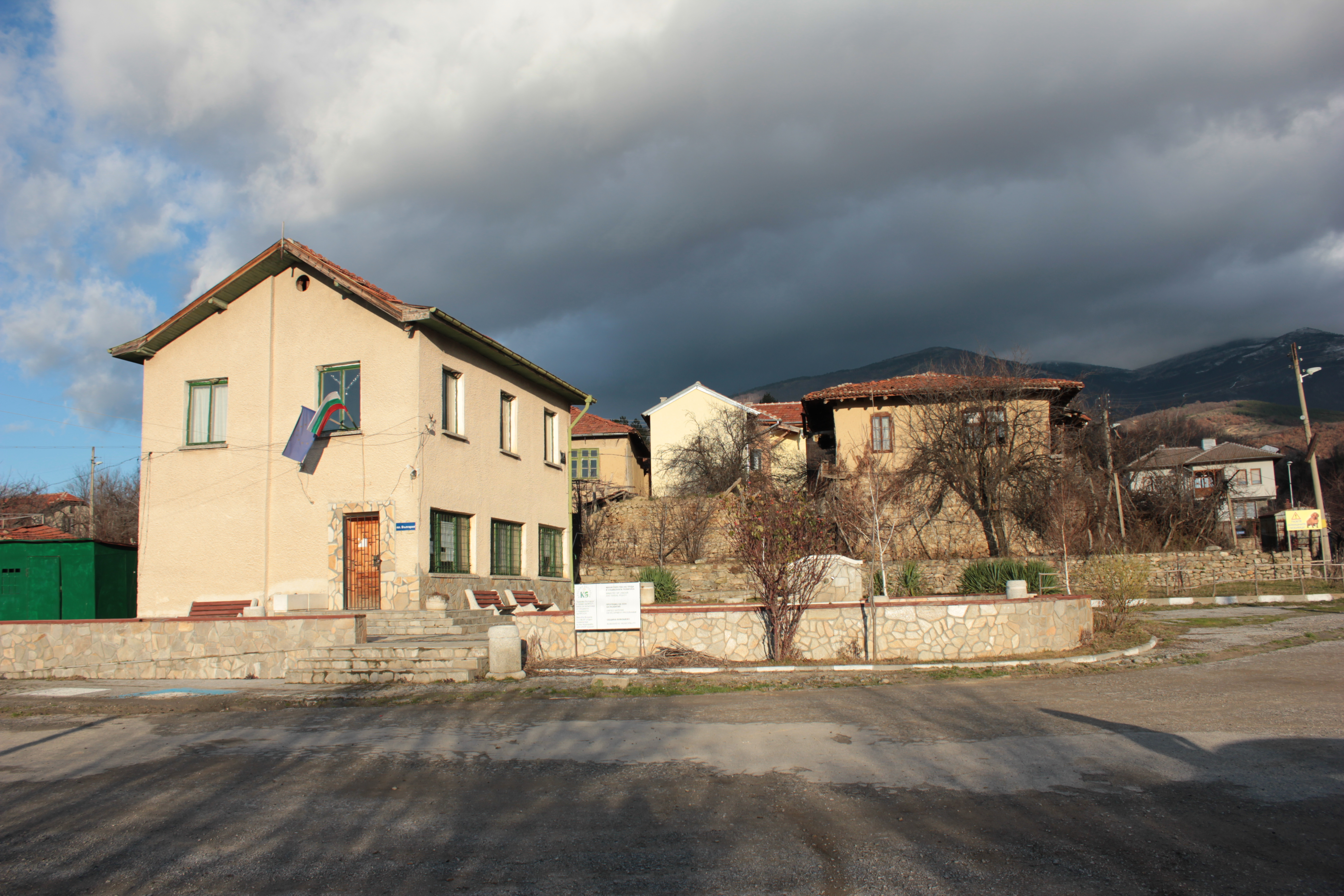 The central square of Badino village